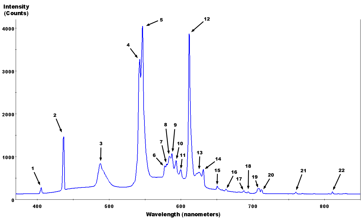 Fluorescent lighting spectrum with emission peaks numbered. Graph of Intensity (counts) vs. Wavelength (nm) in the visible spectrum.